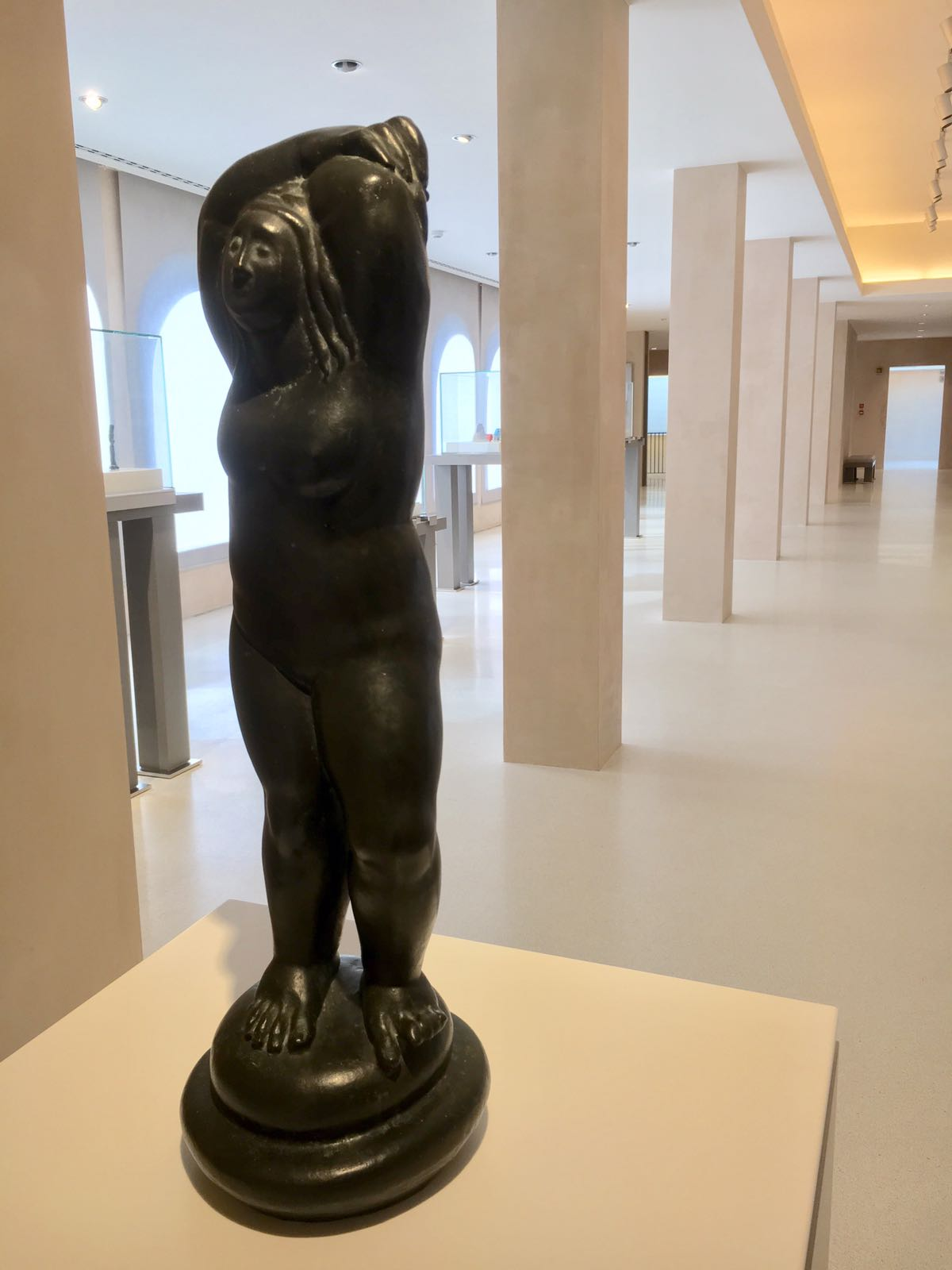 Museum "Luigi Bailo" in Treviso (Italy)